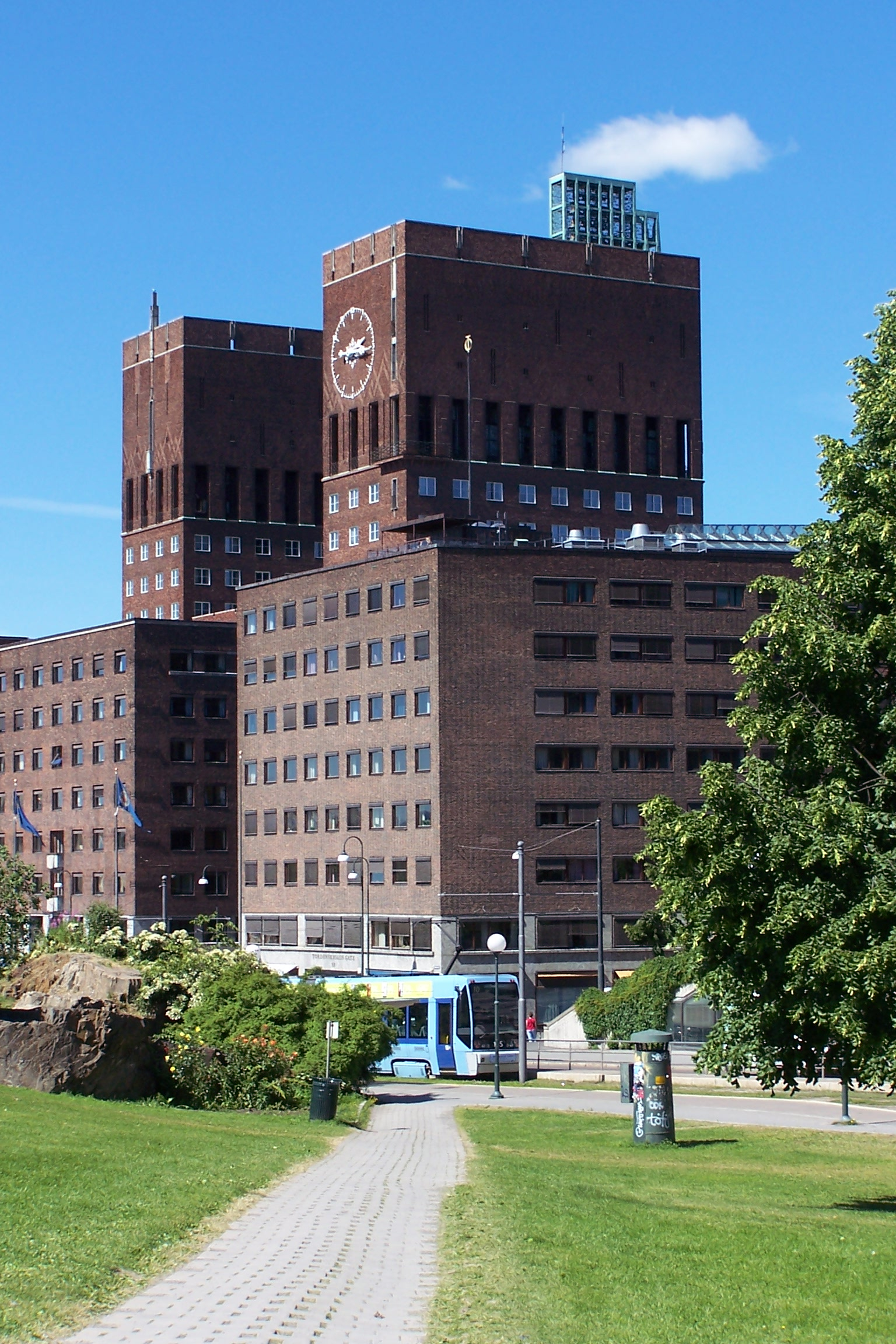 Oslo City Hall